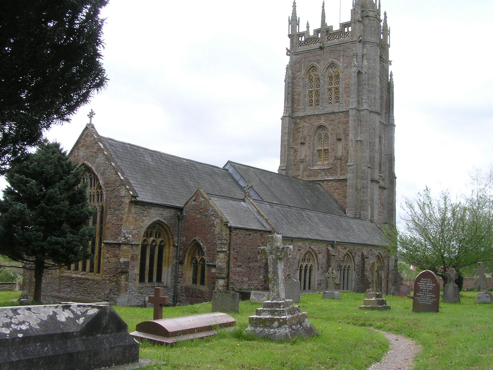 St Mary's parish church, Kingston St Mary, Somerset, seen from the east